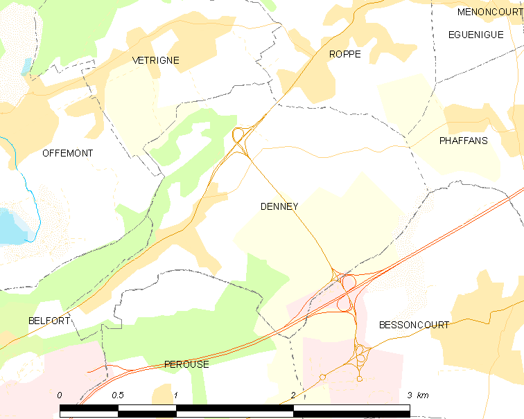 Map of French municipality Denney